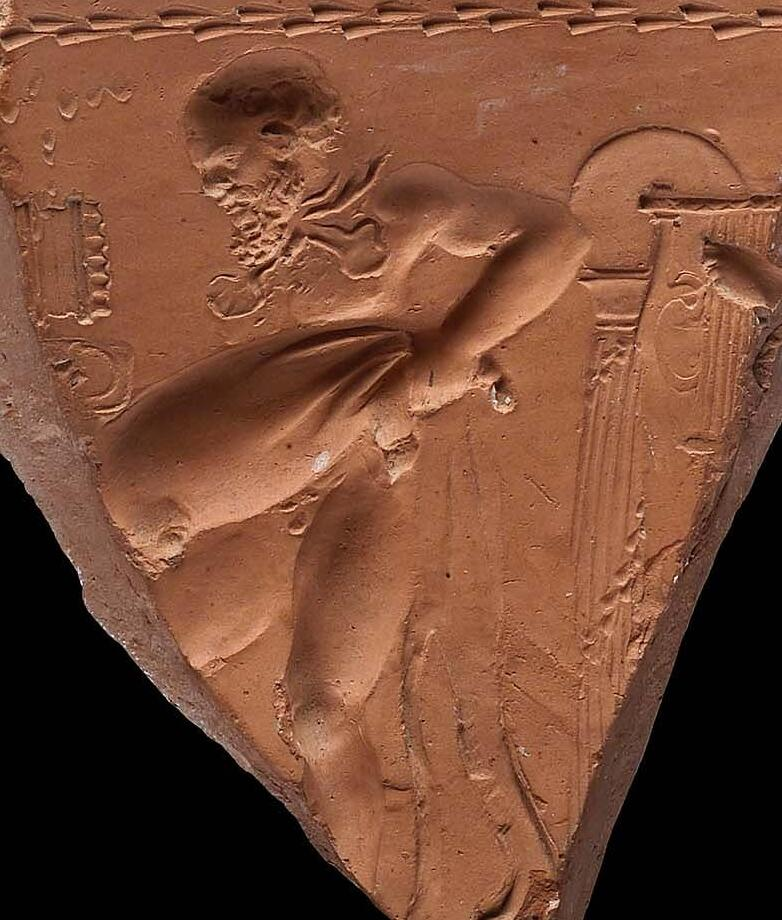 Arretine Ware fragment. All but lower portion of bearded satyr, emptying a wine-skin; at left (in impression); part of a lyre and a hand playing it; in background a fluted column. Signed by C[ERDO] ? of the workshop of M. Perennius. PROVENANCE By date unknown: with Edward Perry Warren; 1898: purchased by MFA from Edward Perry Warren for $ 69,618.13 (this figure is the total price for MFA 98.641-98.940)